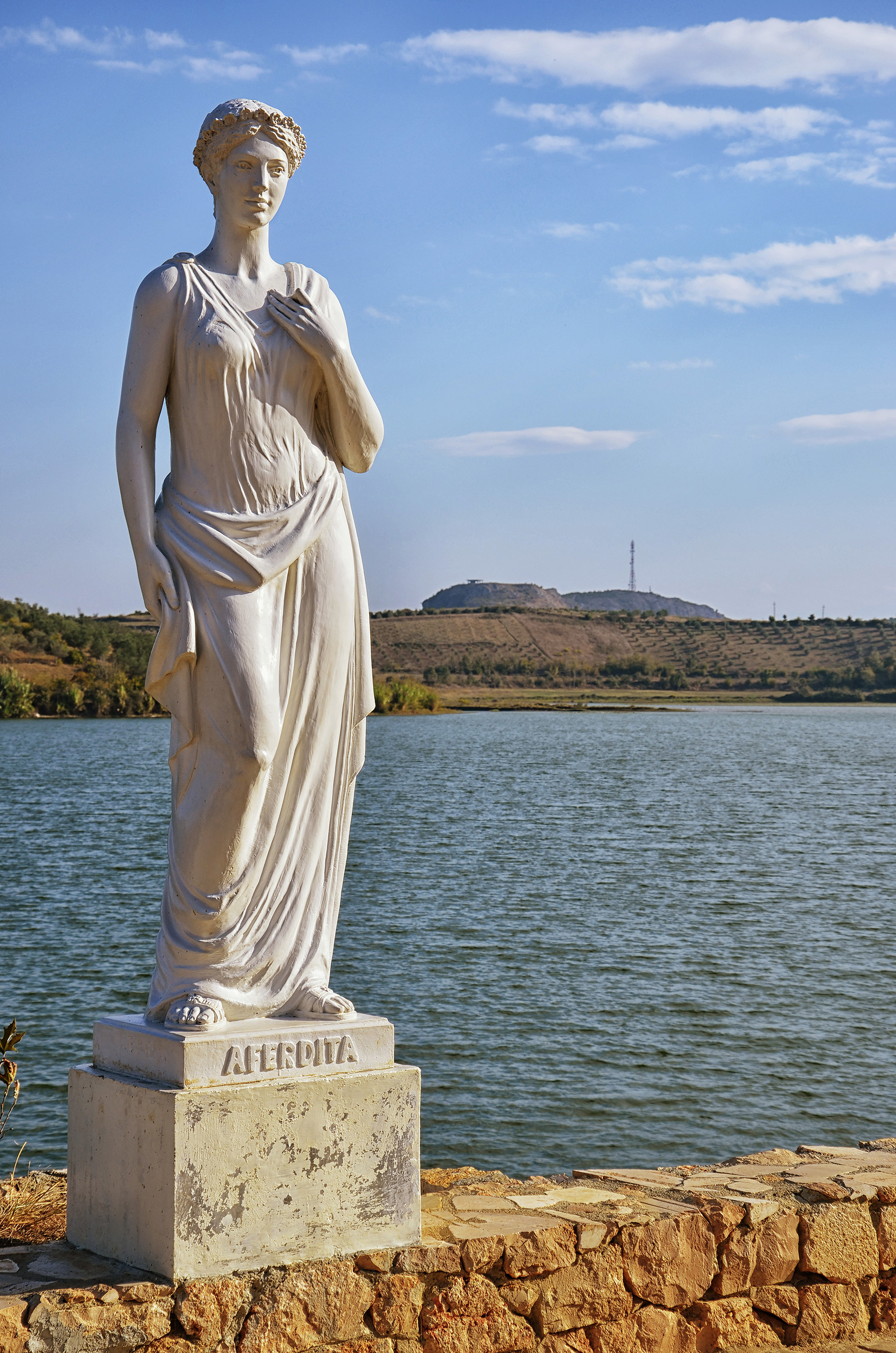 Aphrodite Statue in Seferan, by the Liqeni i Rumbullakët. In the ancient times the people of the nearby Gradishta threw hundreds of Aphrodite figurines into the lake. The Gradishta Hill can be seen in the background.